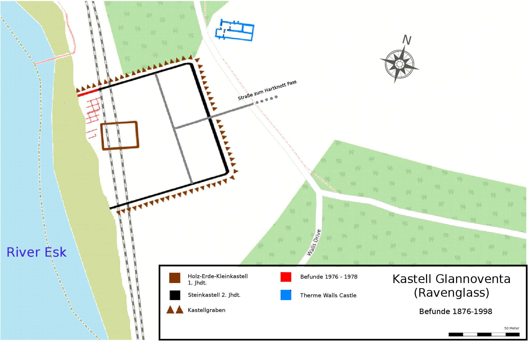 Plan of roman fort Glannoventa, at present-day Ravenglass. Part of Cumbrian roman coastal defenses (2.-4. Century AD).